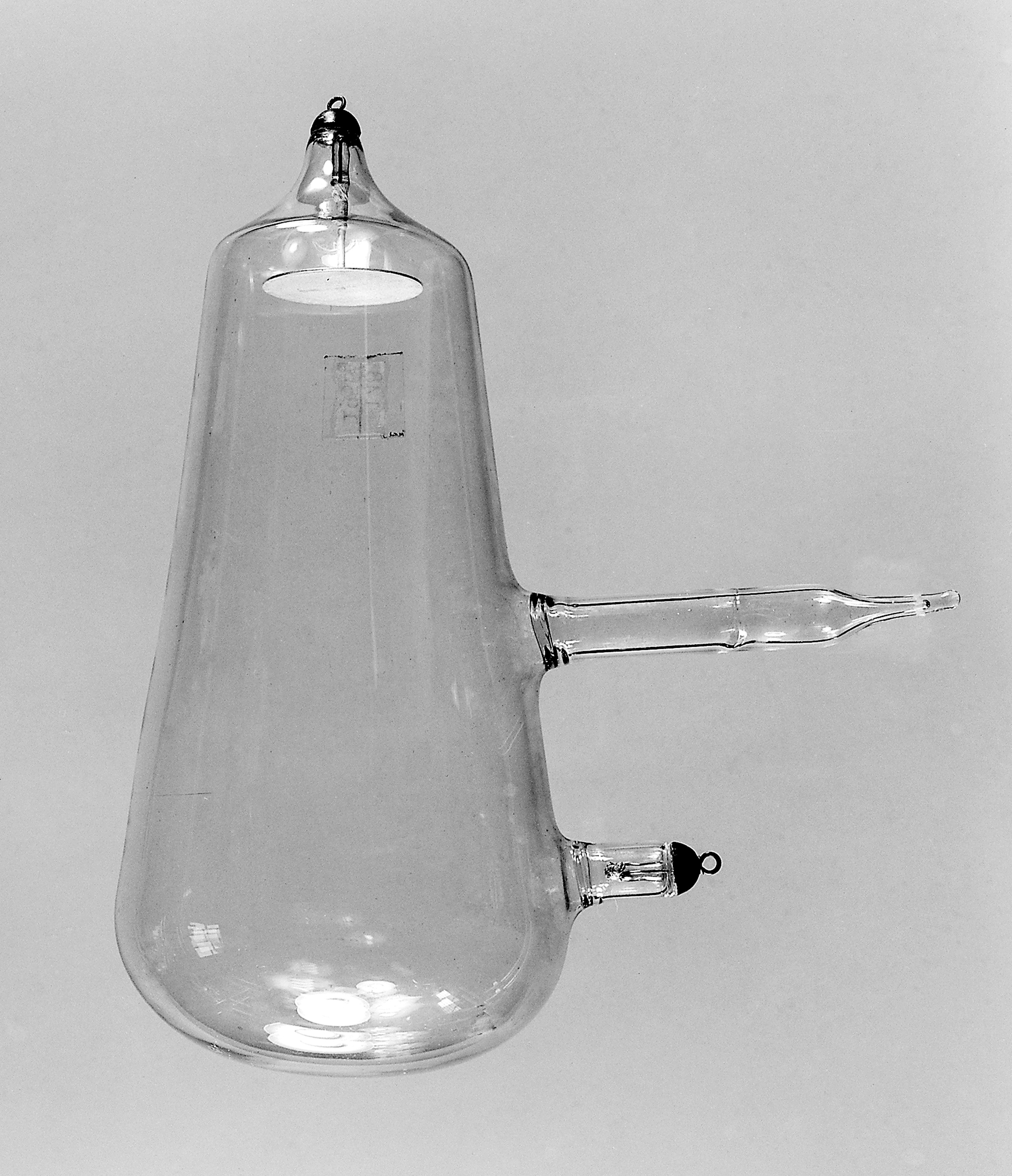 Crookes' type discharge tube with anode in shape of Maltese Cross for demonstrating that cathode rays travel in straight lines. Wellcome Images Keywords: x-ray and discharge tubes